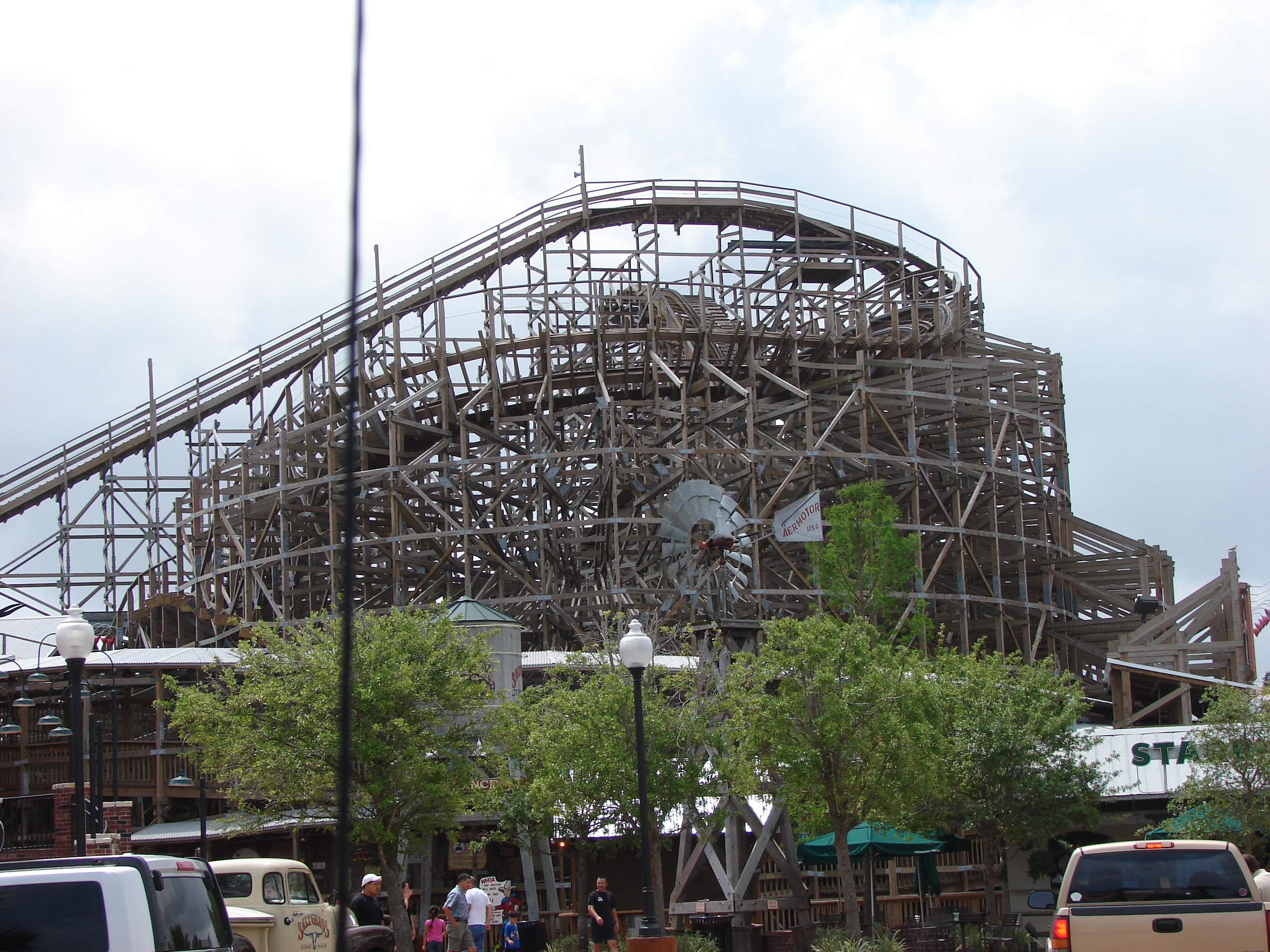 A picture of the Boardwalk Bullet on April 26, 2009.